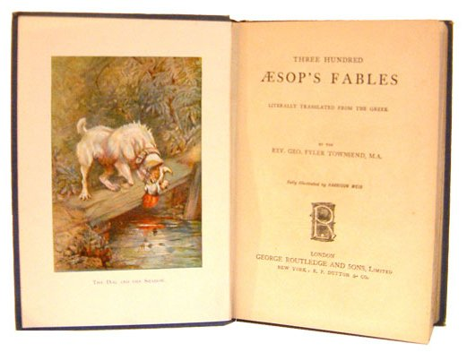 Title page of Three Hundred Aesop's Fables